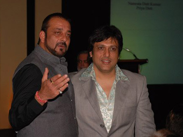 Govinda with Sanjay Dutt (left) at the Launch of The Book Mr And Mrs Dutt